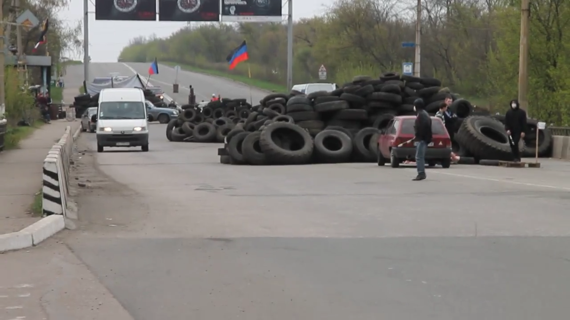 DPR checkpoint with a few members of the civilian-made "self-defense forces" in Kramatorsk.